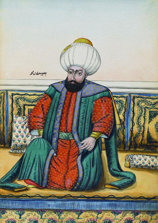 Sultan Mehmed I